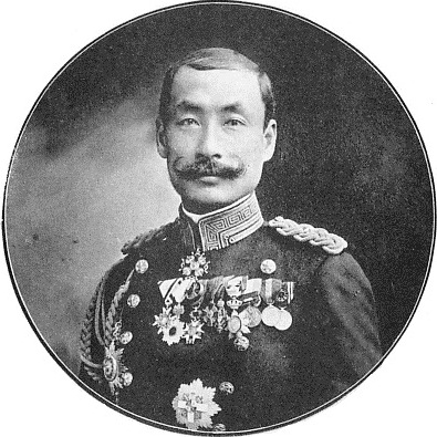 Sadakoto Hisamatsu